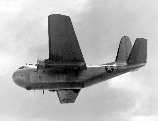 Budd RB-1 "Conestoga" all-stainless-steel transport aircraft in flight.